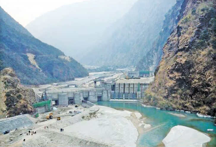 Upper Tamakoshi diversion dam in 2019, looking downstream